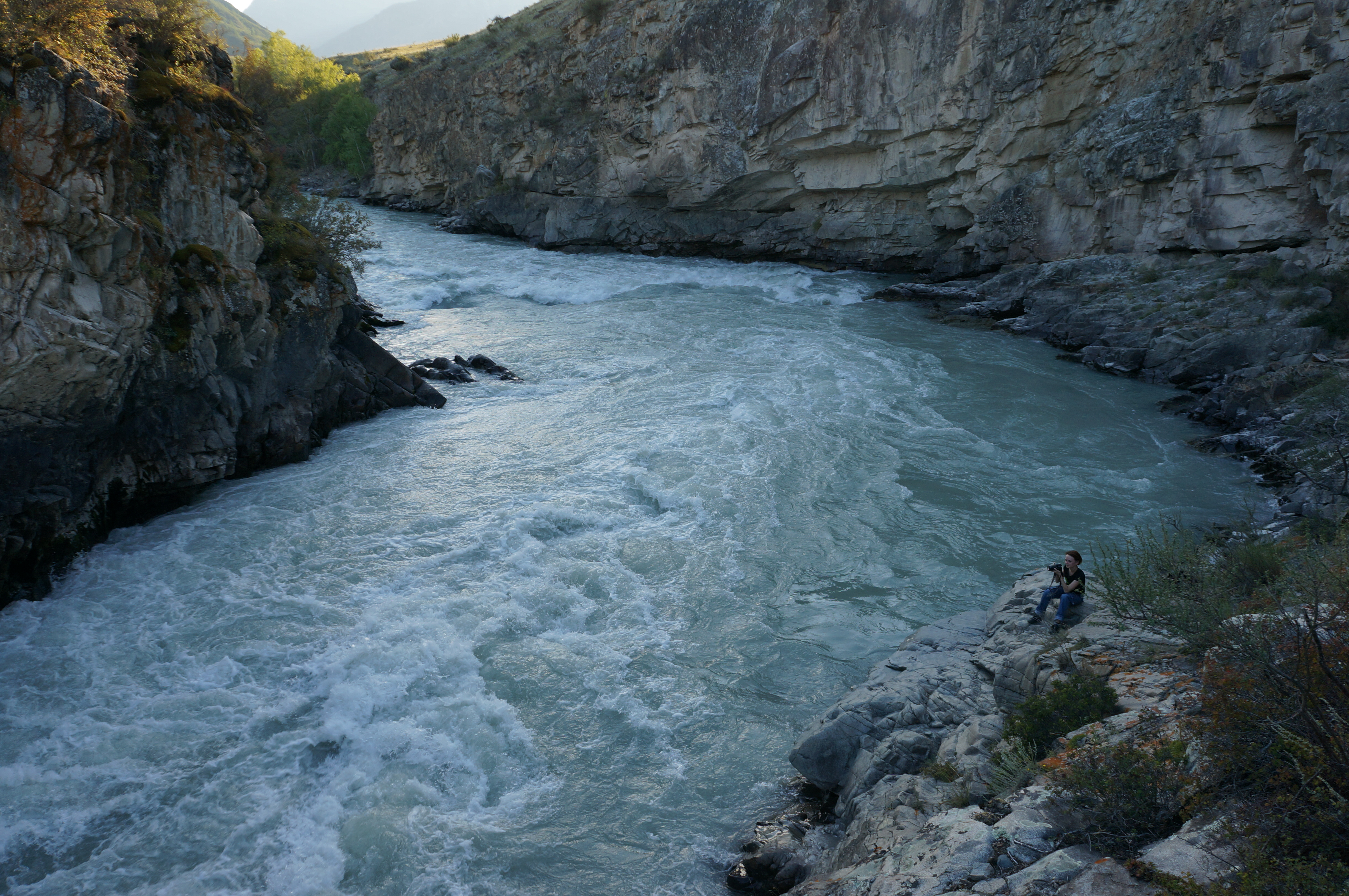 Finish of Horizon Rapid on Chuya River, 5th category (Altai Republic, Russia, August 2014)